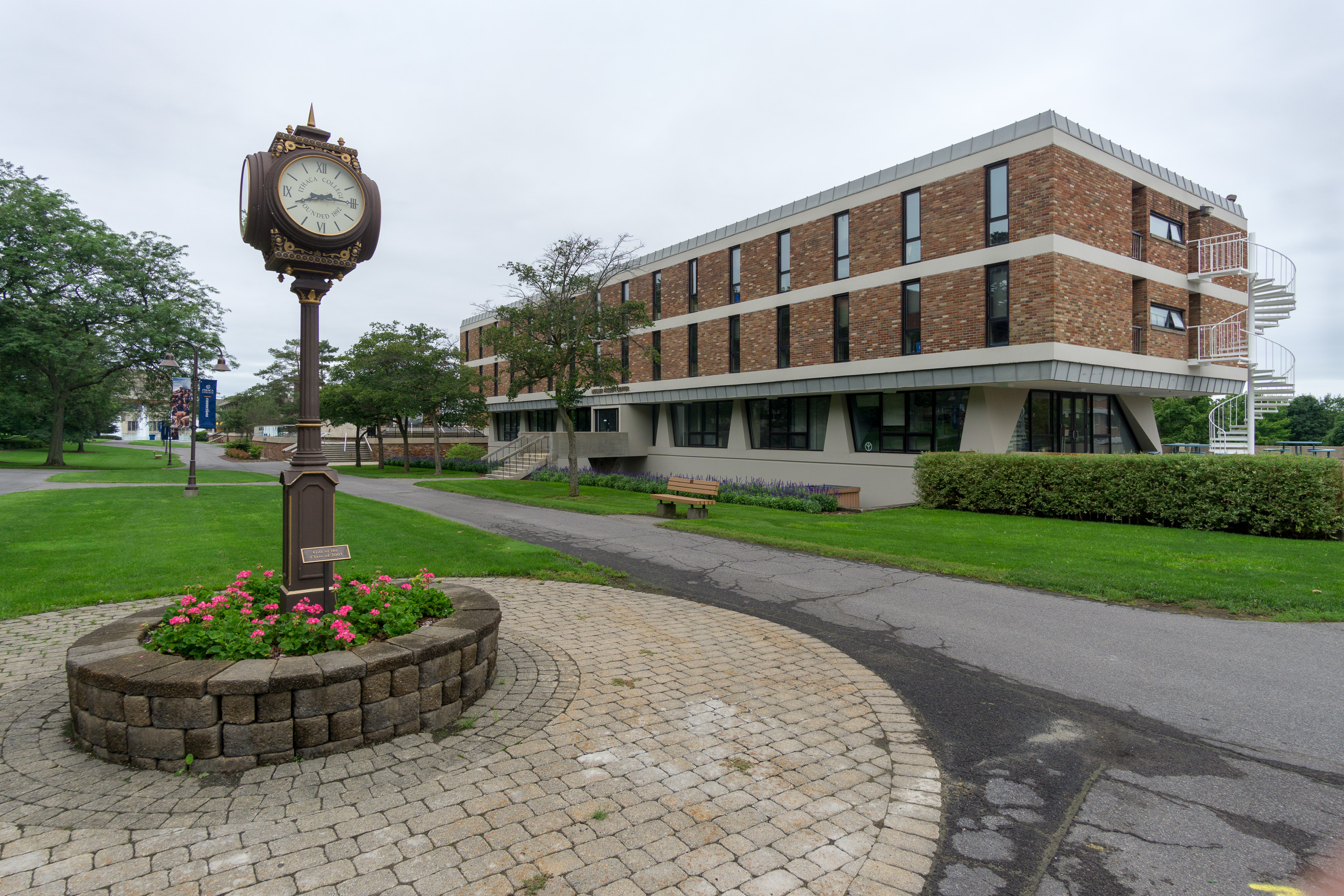 Muller Faculty Center and Class of 2003 clock, Ithaca College campus